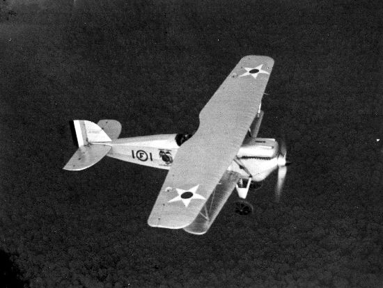 Boeing FB-1 fighter in flight